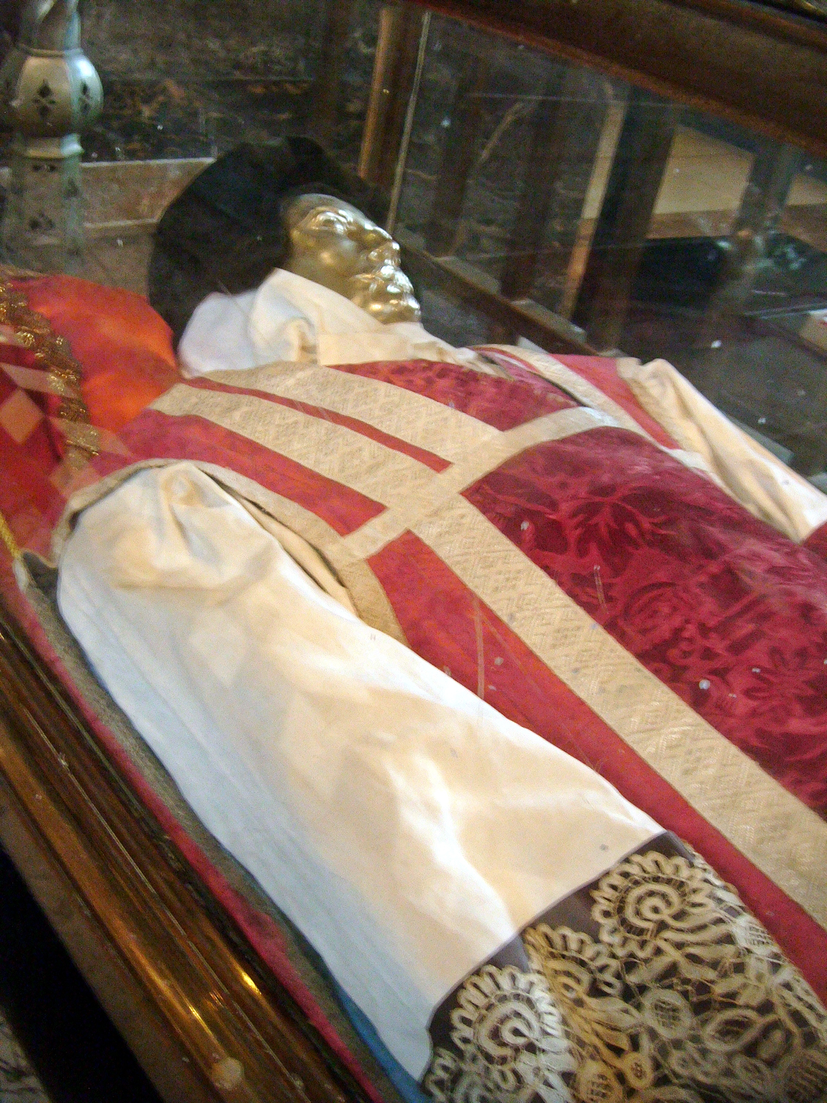 Leib des Hl. John Southworth, (+ 1654), Westminster Cathedral, London